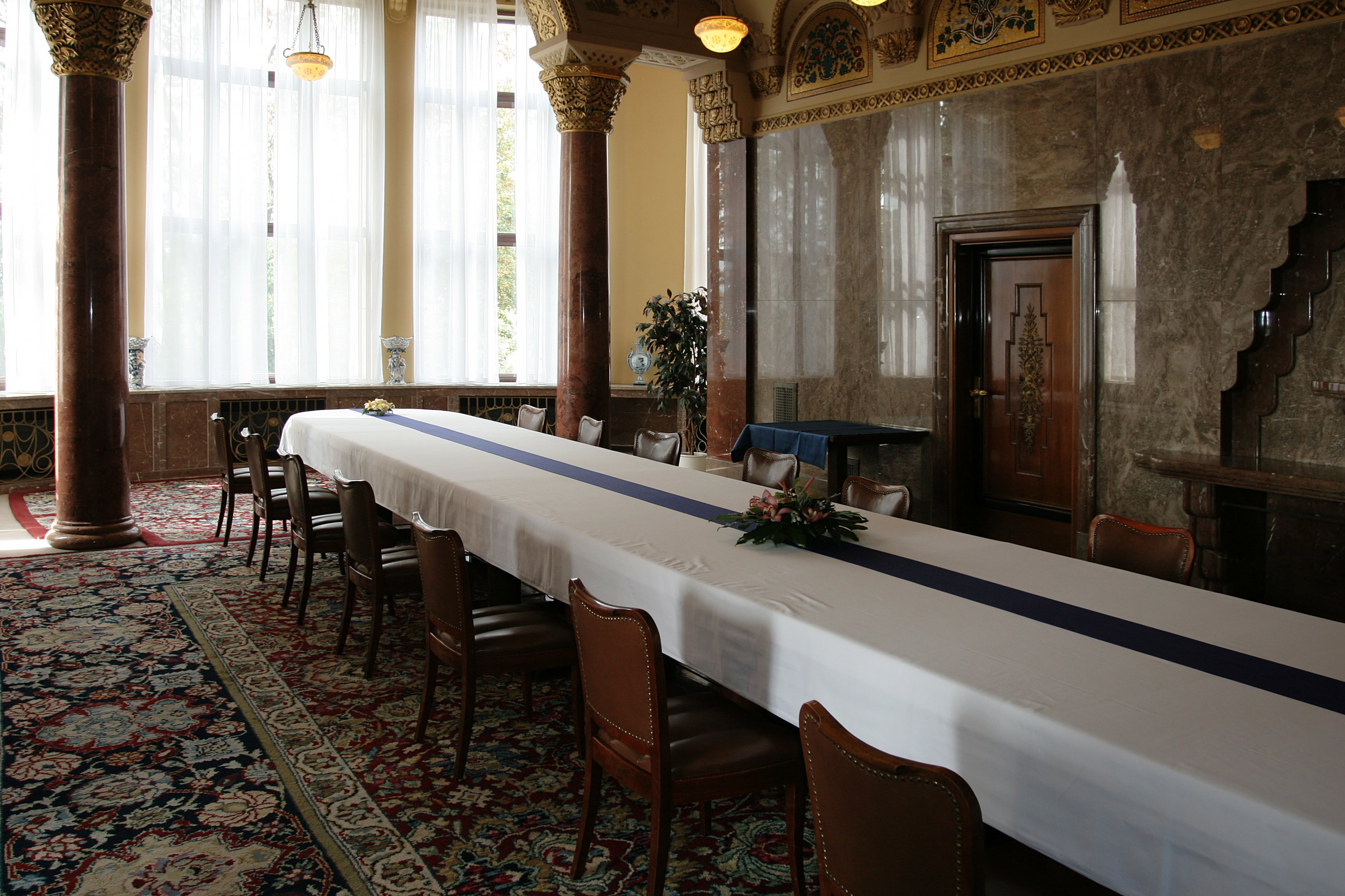 Kramářova vila, residence of Czech prime ministersDining room